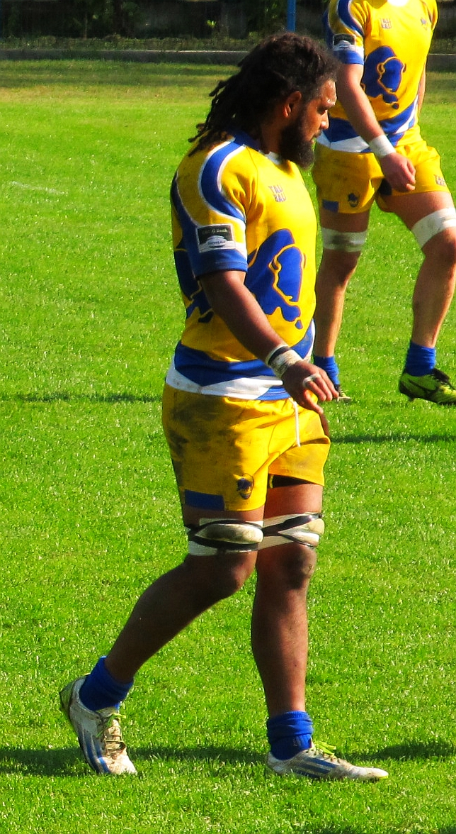 Fijian international rugby union player Sean Morrell during a match between his team, CSM Baia Mare, and rivals CSM București.